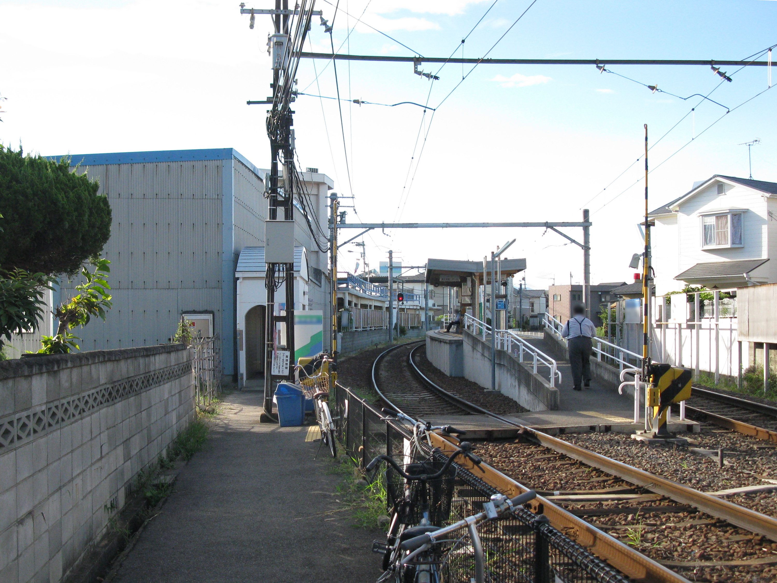 Kita-higashiguchi Station entrance (Takamatsu-Kotohira Electric Railroad(Kotoden) Nagao Line)